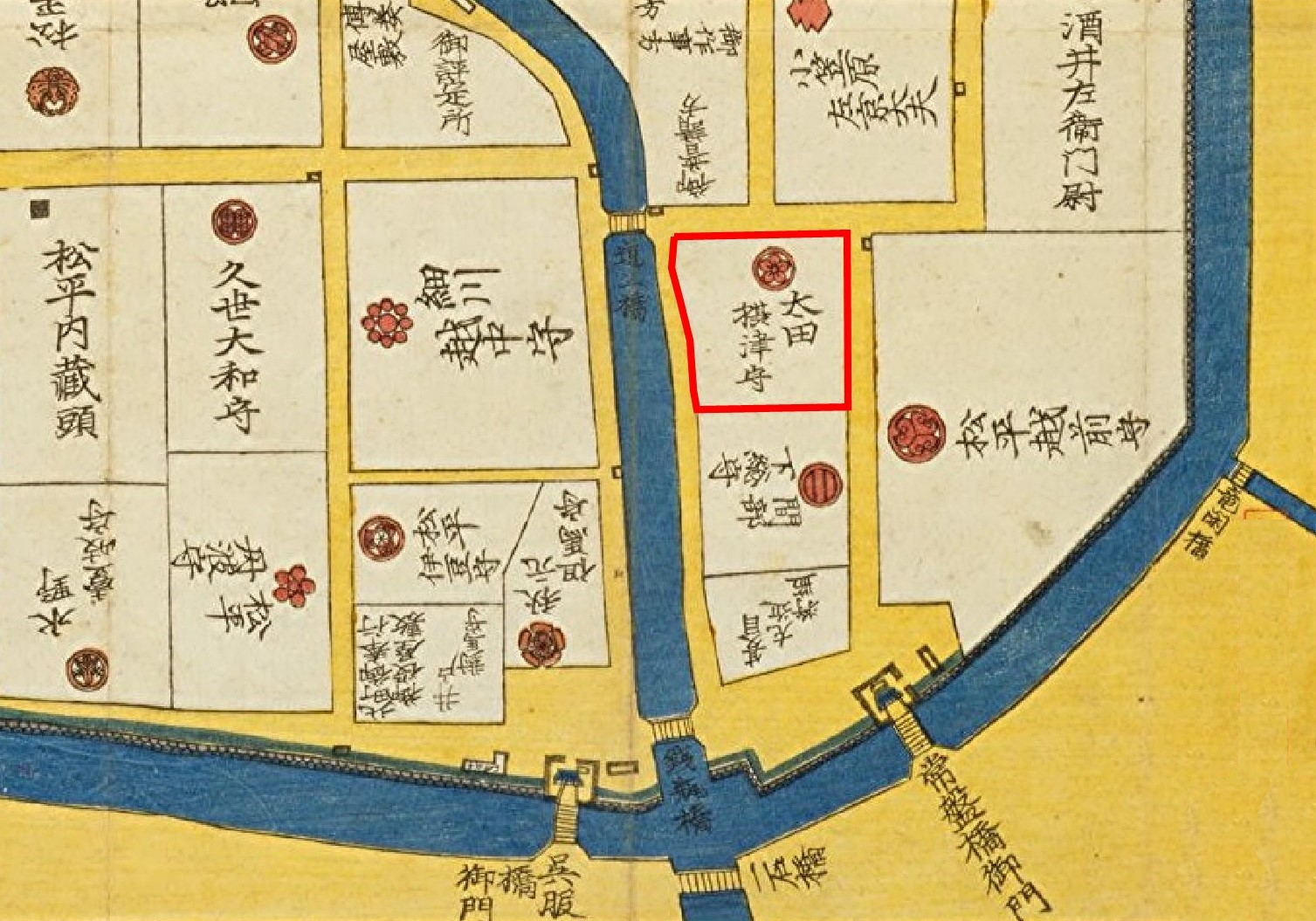 Residence of Ôta clan at Edo